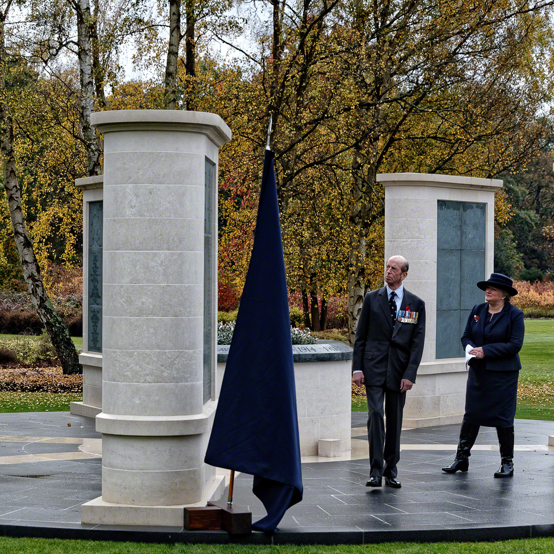 Duke of Kent and CWGC Director General Victoria Wallace at the dedication of the 1914-18 Brookwood Memorial